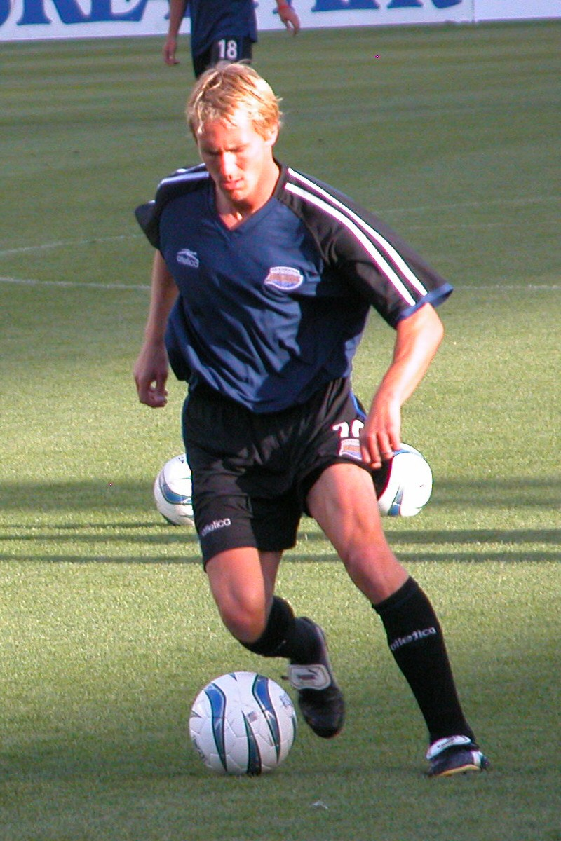 Chris Henderson at the Home Depot Center